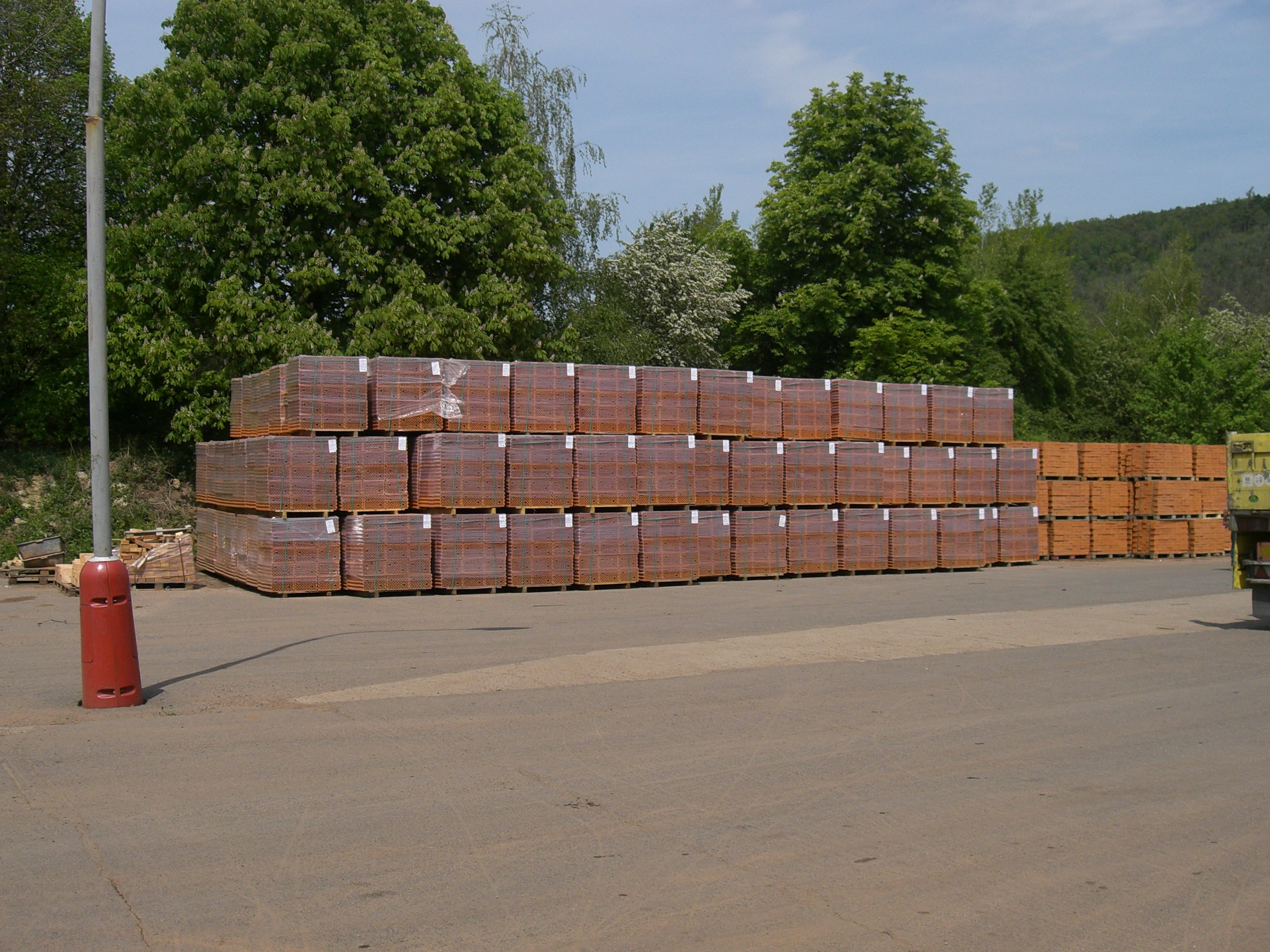 Brickyard in Kryry village, Czech Republic. Before shipping.